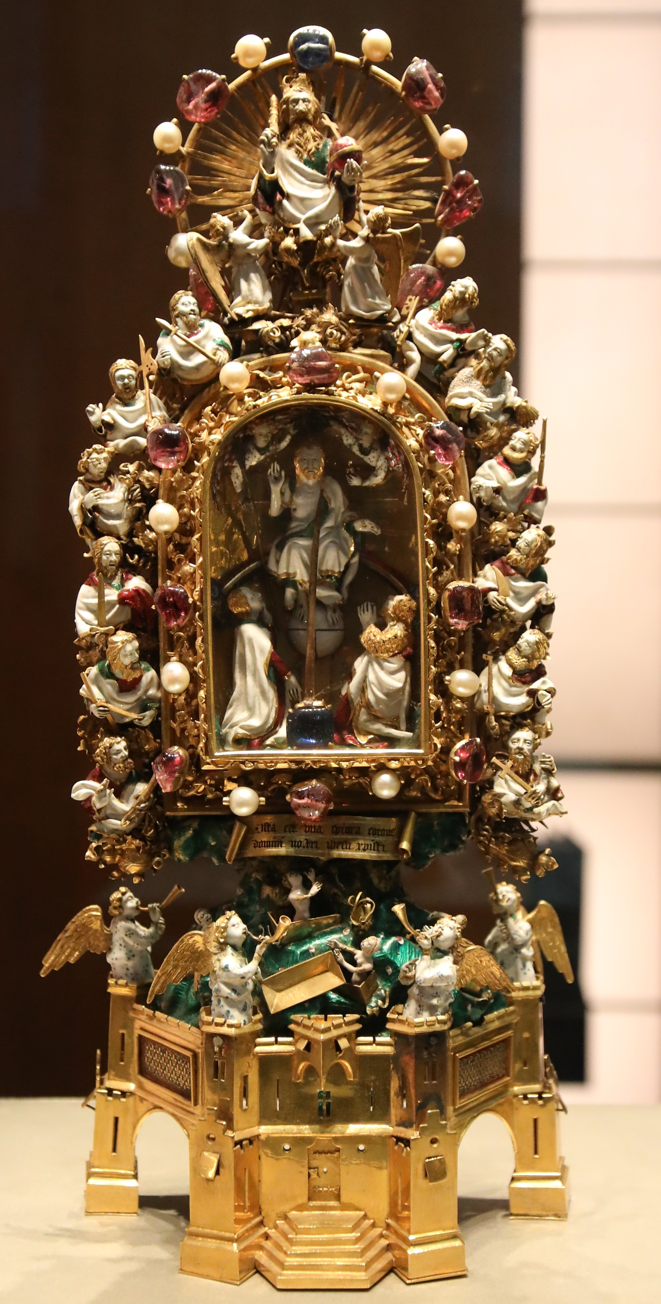 Photo of the front of the Holy Thorn Reliquary in the british museum